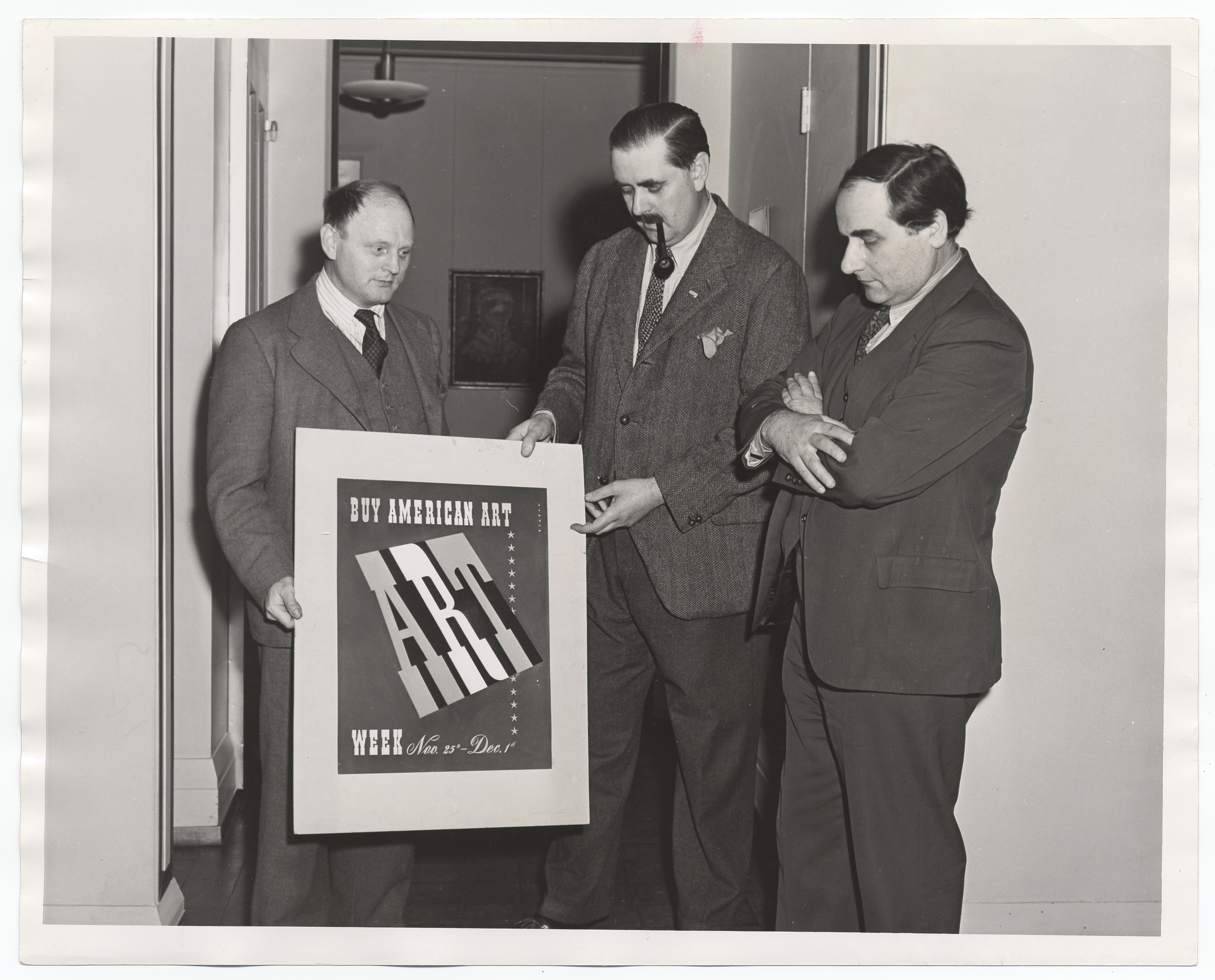 Marsh, Bouche and Zorach with a poster advertising an WPA-Federal Art Project; exhibiton of art held at the Whitney Museum from Nov. 25 to Dec. 1, 1940. Identification on verso (handwritten and stamped): New York City W.P.A. Srt Project; Photography Division; 110 King Street Neg. No.: 5310-2; Date: 10/22/40; Title: Exhib of Art Week; Location: Whitney Mus. 10 W 8 St. Man; Photog.: Saltsberg; W.P. No. 1; O.P. No.: 65-1-97-2063. Published in: Archives of American Art Journal v. 4, no. 1, p. 4